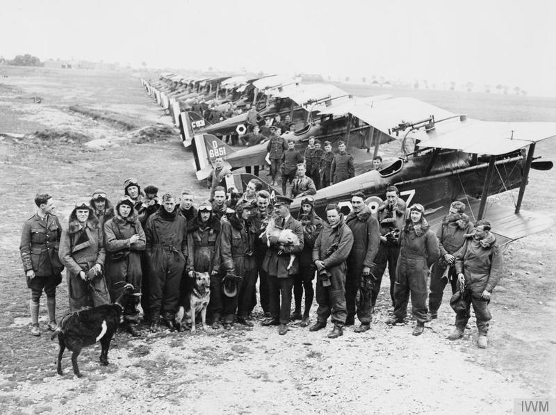 The Royal Flying Corps on the Western Front, 1914-1918 The officers (including Major Mannock) and Royal Aircraft Factory S.E.5a scouts of No. 85 Squadron at St Omer aerodrome, 21 June 1918.